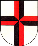 Coat of arms of Altnau, Canton of Thurgau, SwitzerlandEsperanto: Blazono de Altnau, Kantono Turgovio, Svislando